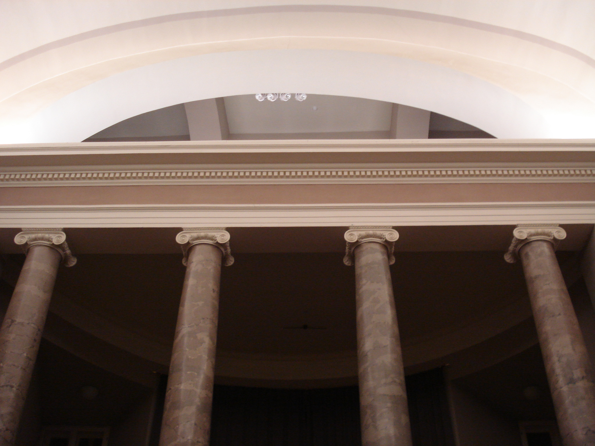 The The Ionic order columns in the front staircase in the Vilnius Town hall